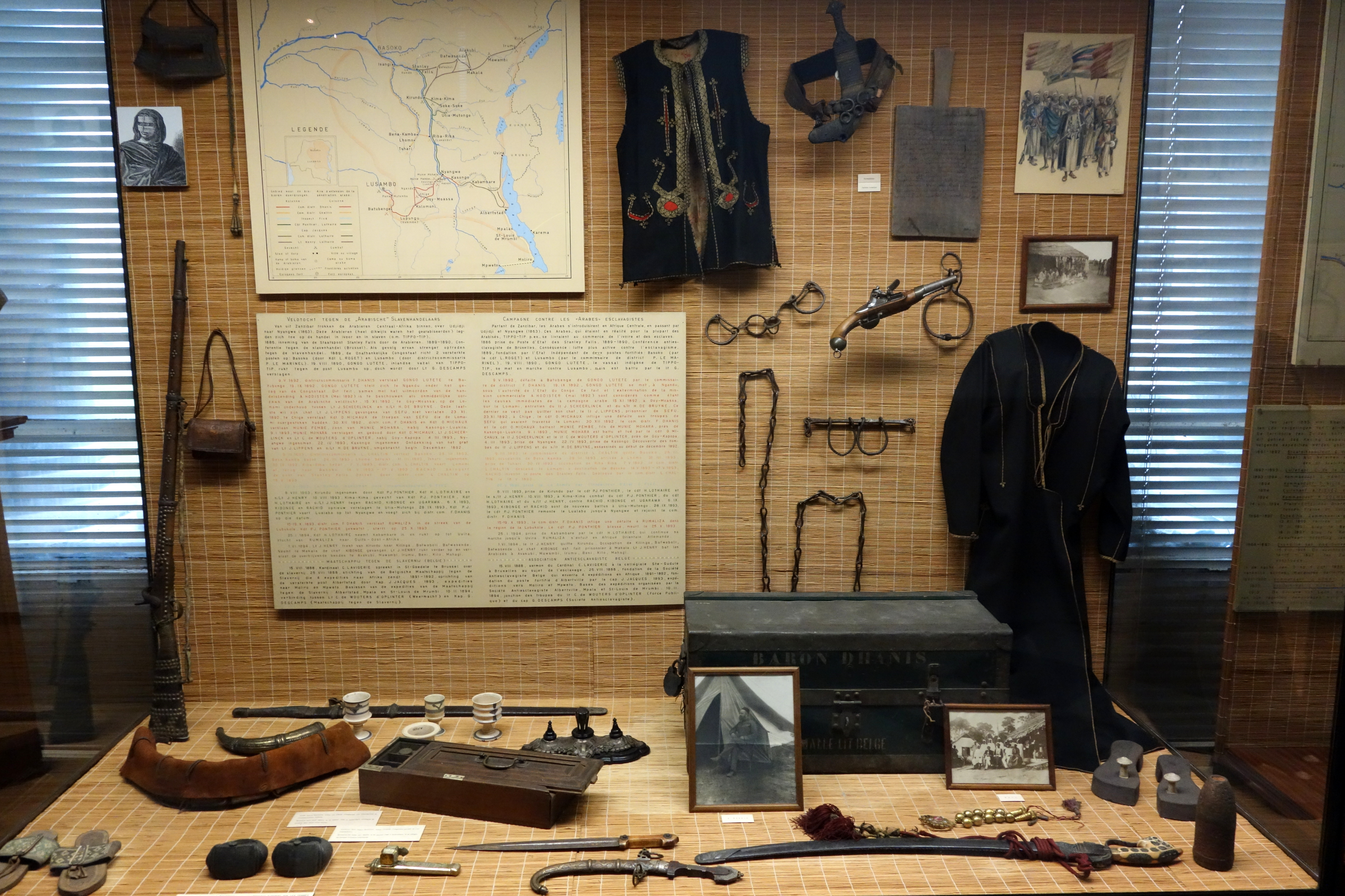 Exhibit in the Royal Museum for Central Africa, Tervuren, Belgium. This object is old enough so that it is in the public domain.